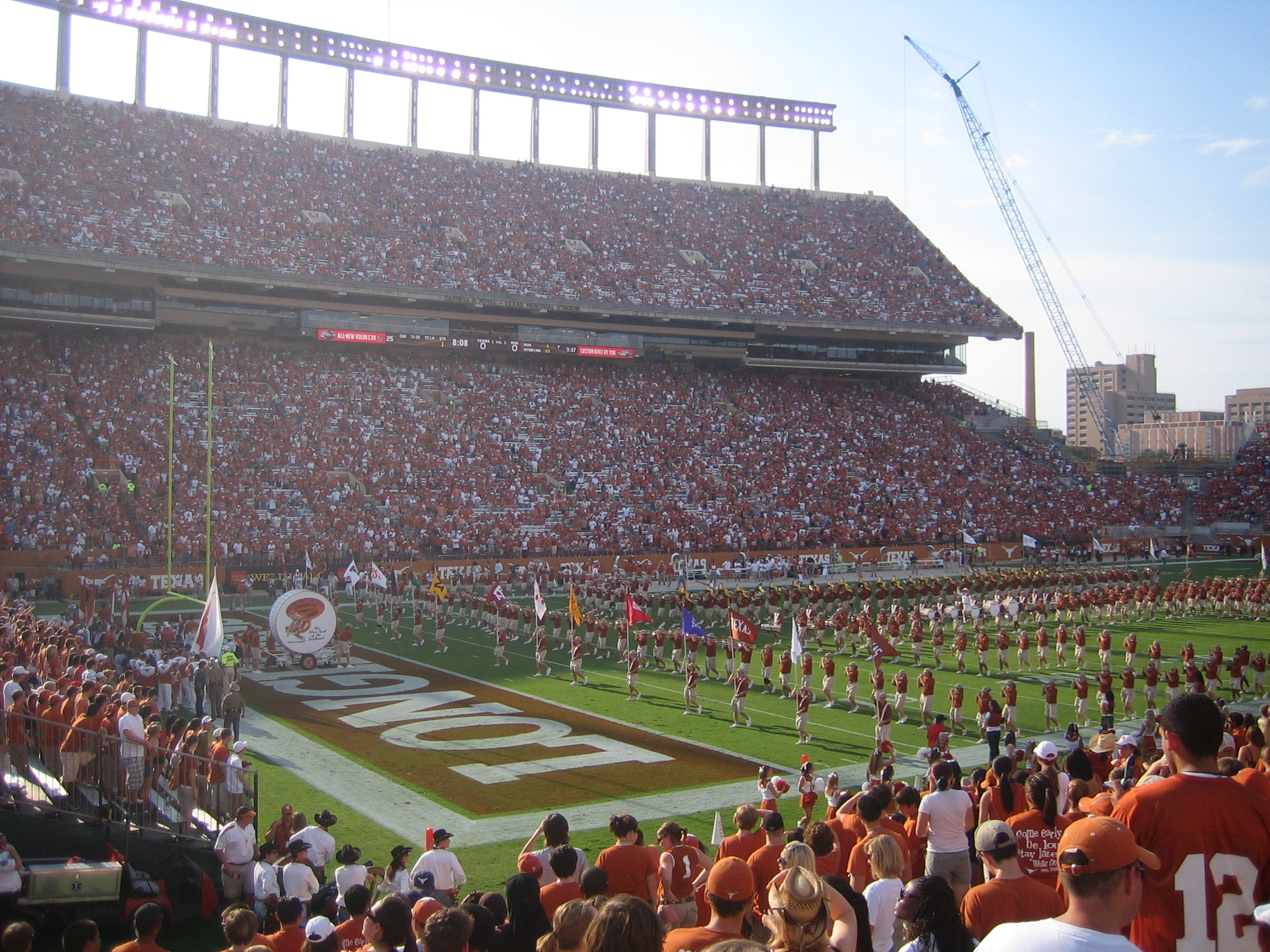 The Longhorn band performs prior to the game versus Arkansas St., the first game of the season for the 2007 Texas Longhorn football team.